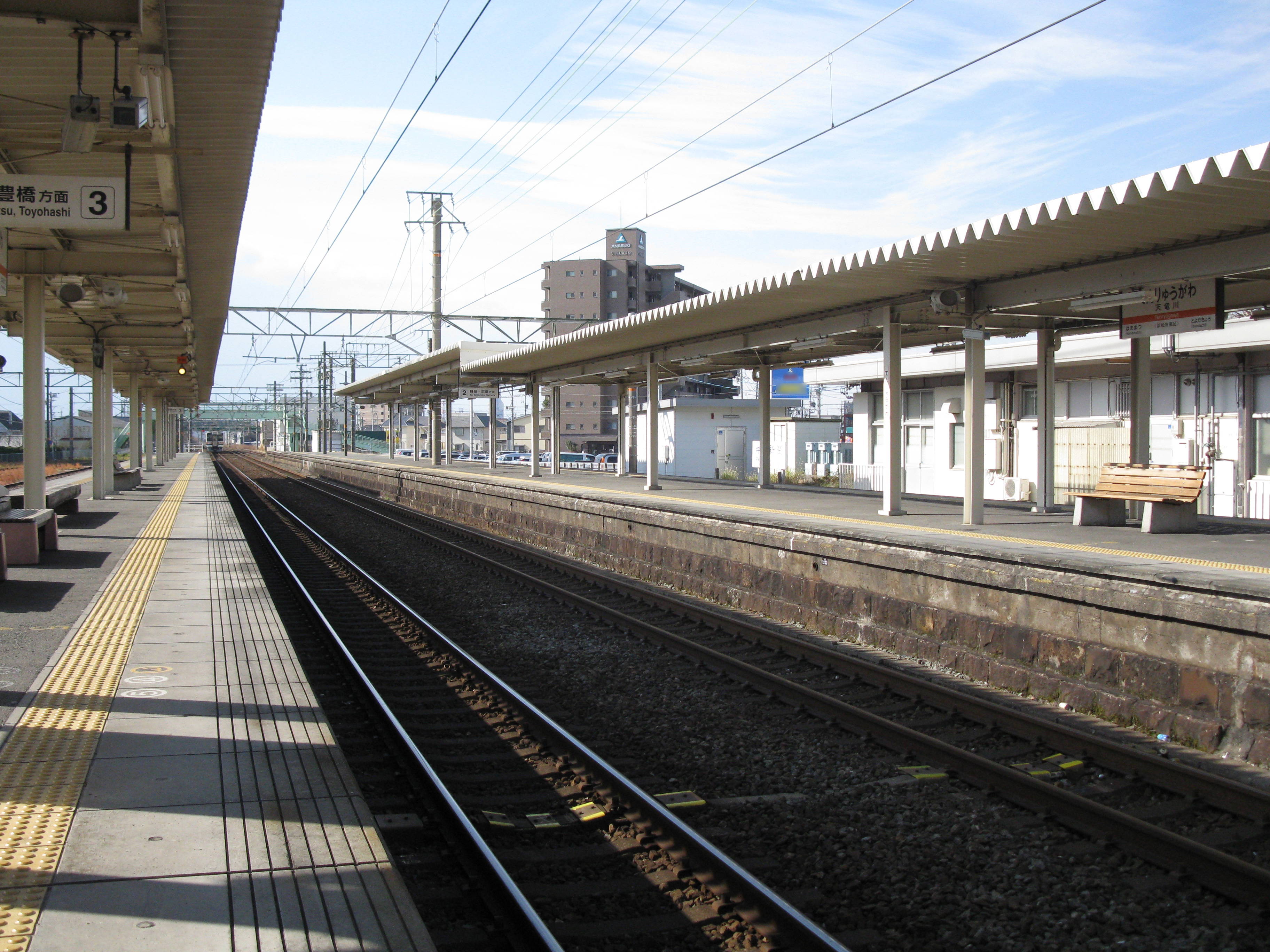 Tenryūgawa Station platform (Central Japan Railway(JR Central) Tōkaidō Main Line)